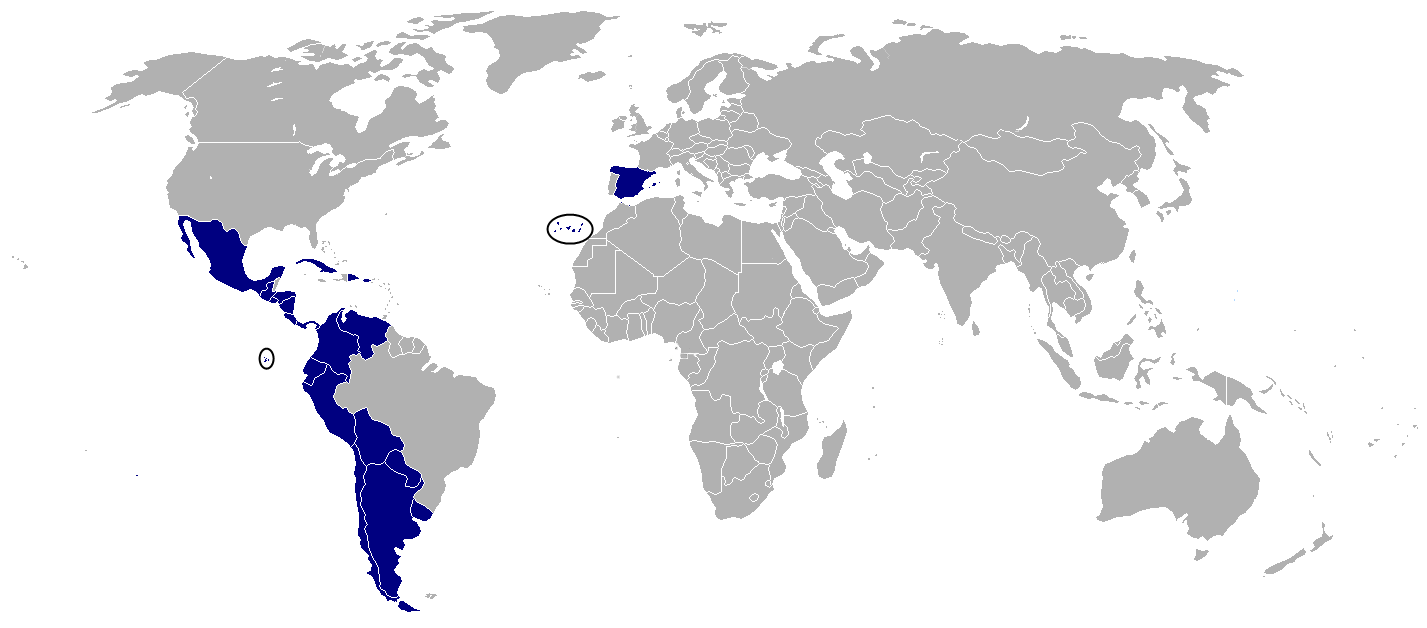 Map of Hispanidad